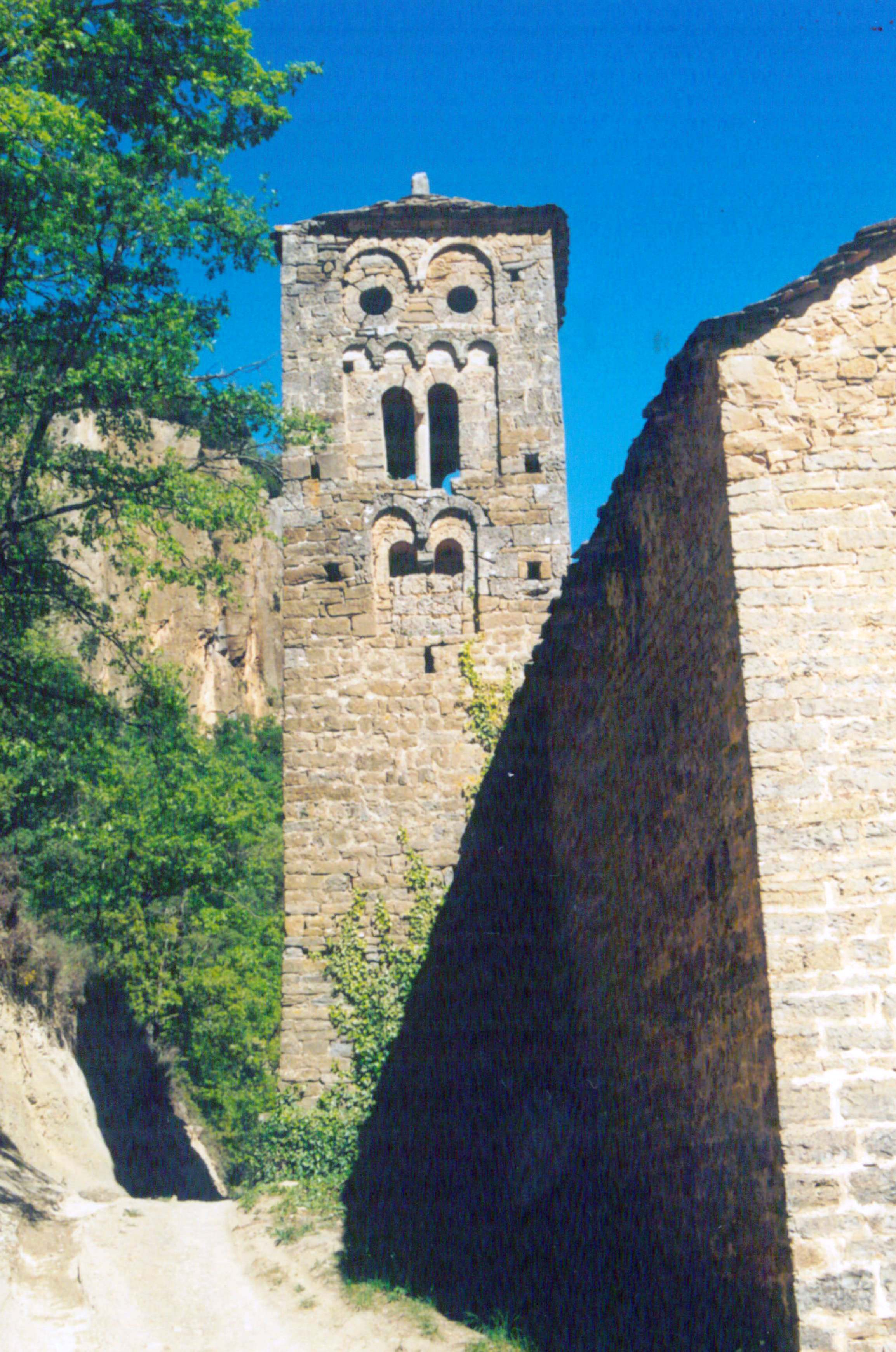 Sant Romà church, in the village of Valldarques, Alt Urgell, Catalonia